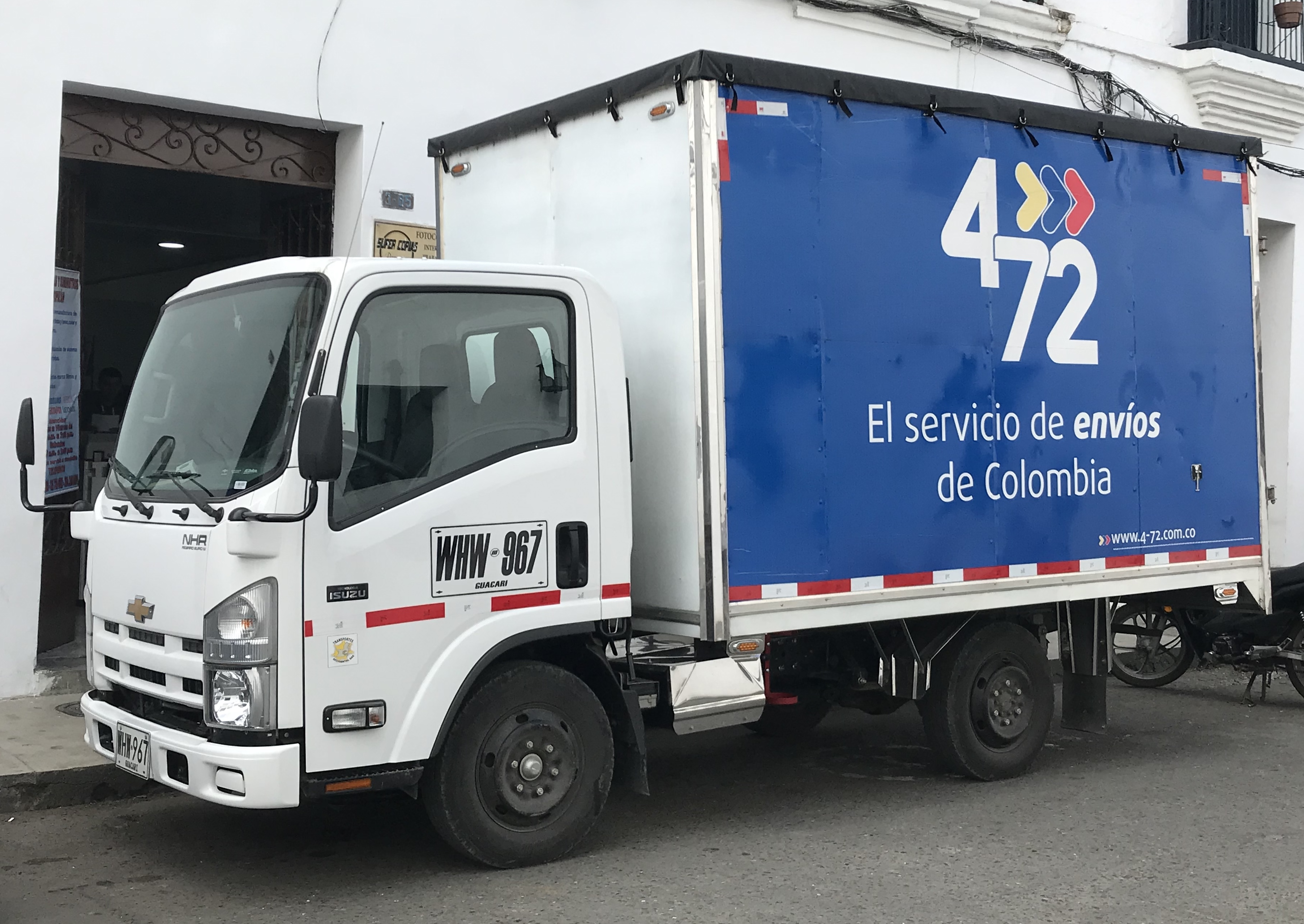 A 4-72 Chevrolet NHR mail truck in Popayán, Colombia.